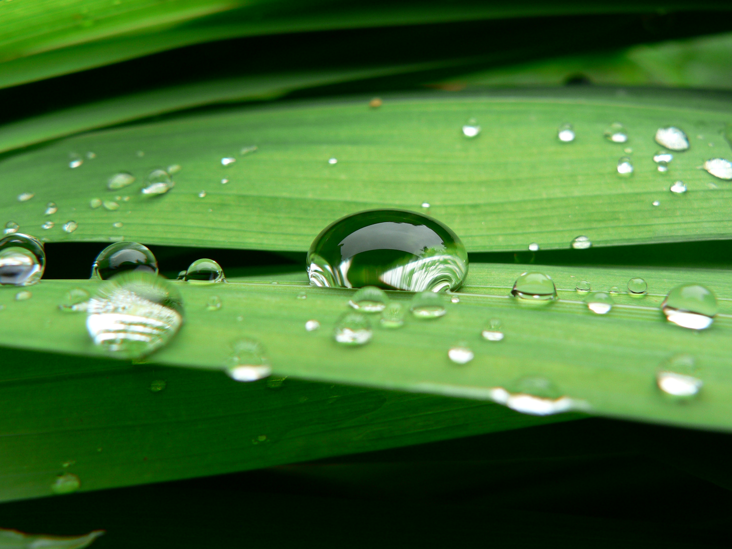 water drop on lilly leaf